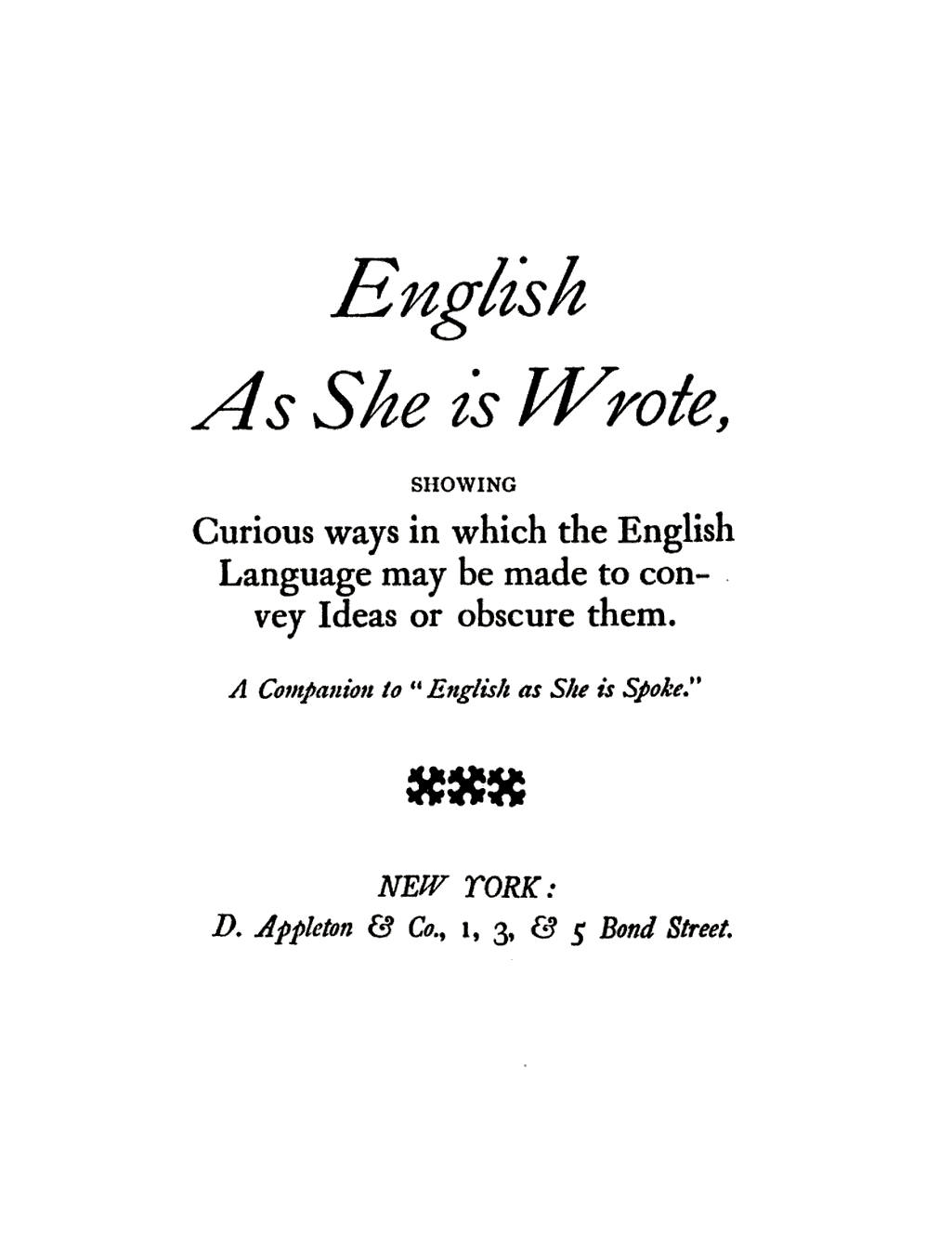 Title page